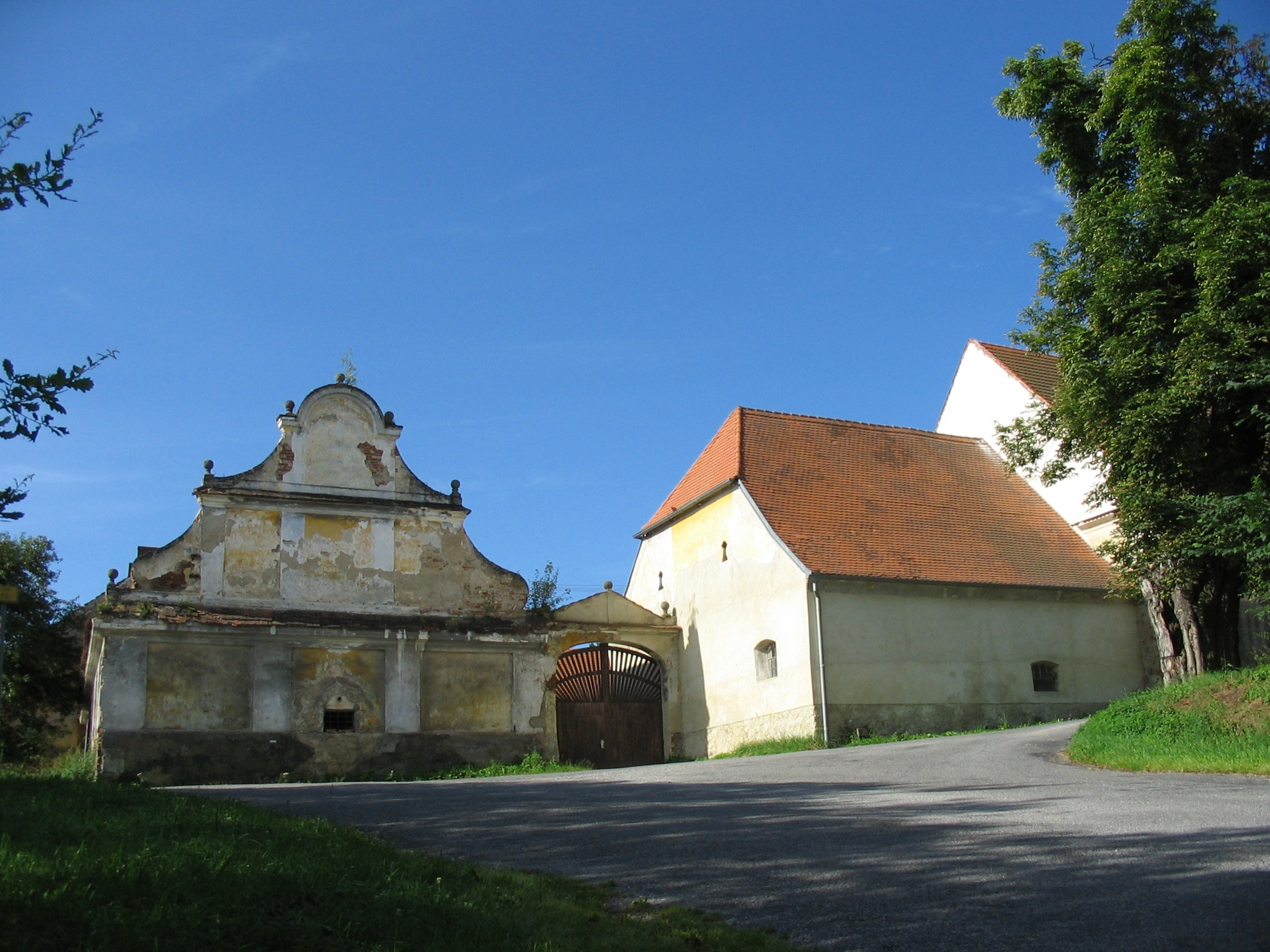 Castle in Tažovice, Strakonice District, Czech Republic